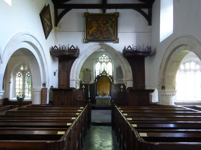 Church at Mildenhall, Wiltshire